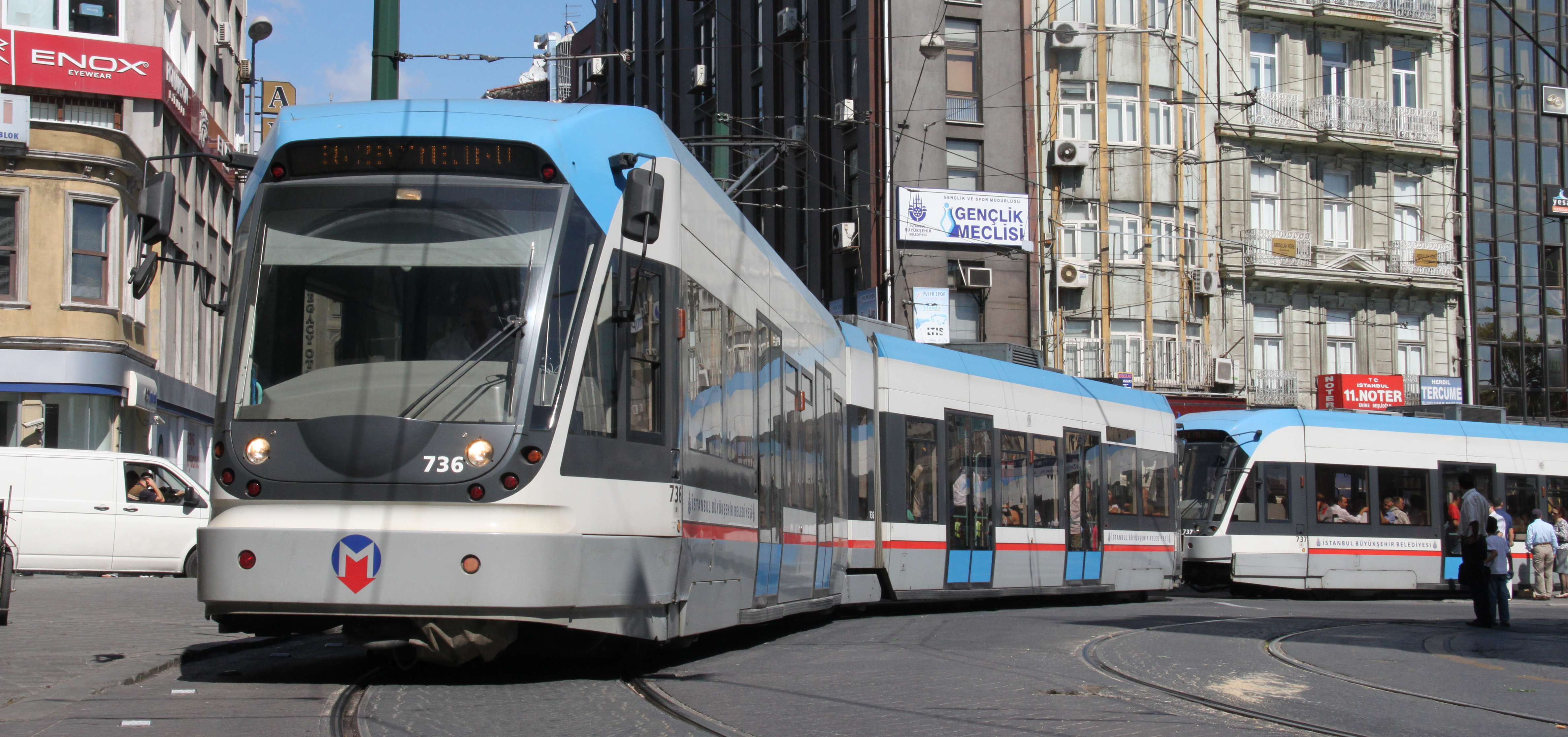 2 Bombardier Flexity Trams runs through Hudavendigar Cd heading towards Kabataş in Istanbul.